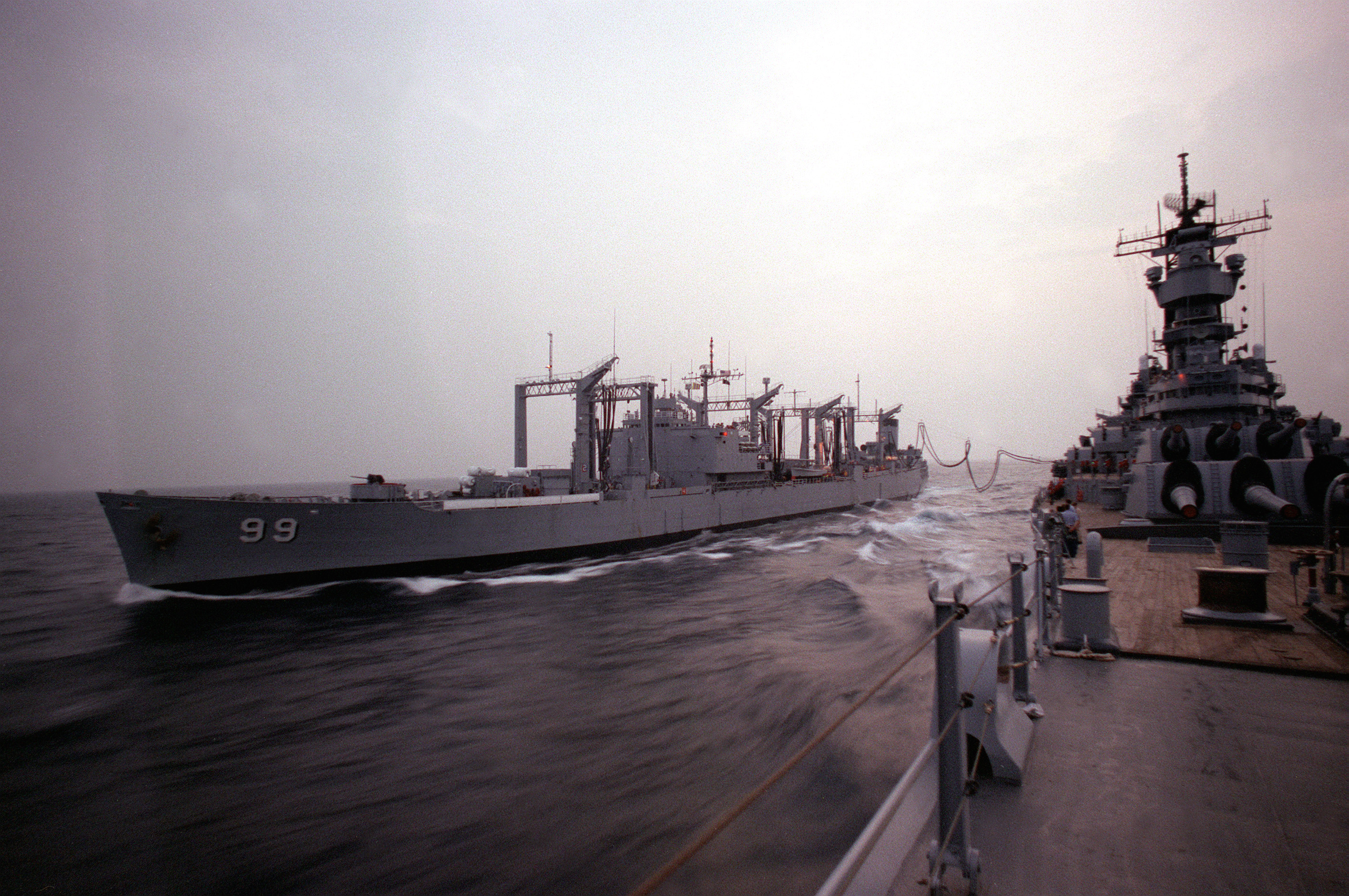 The U.S. Navy fleet oiler USS Canisteo (AO-99) pulls alongside the battleship USS Iowa (BB-61) during an underway replenishment on 1 August 1986.